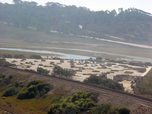 North Beach Parking Lot in Los Penasquitos Lagoon, as seen from the Del Mar side of North Torrey Pines Road